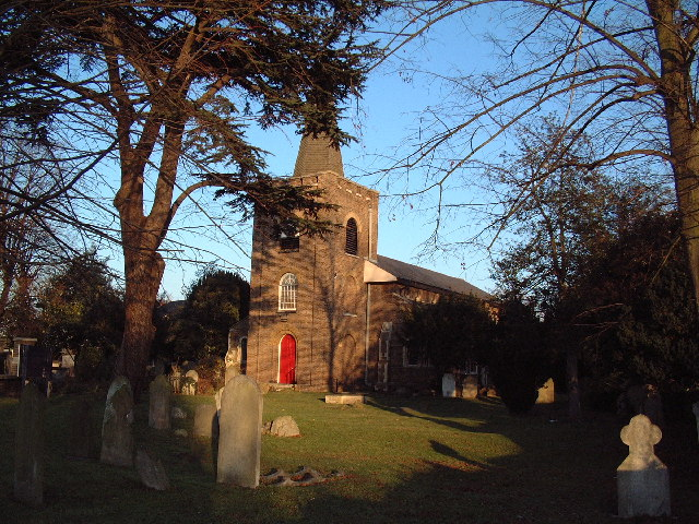 St Dunstan's parish church, Feltham, Middlesex, seen from the southwest